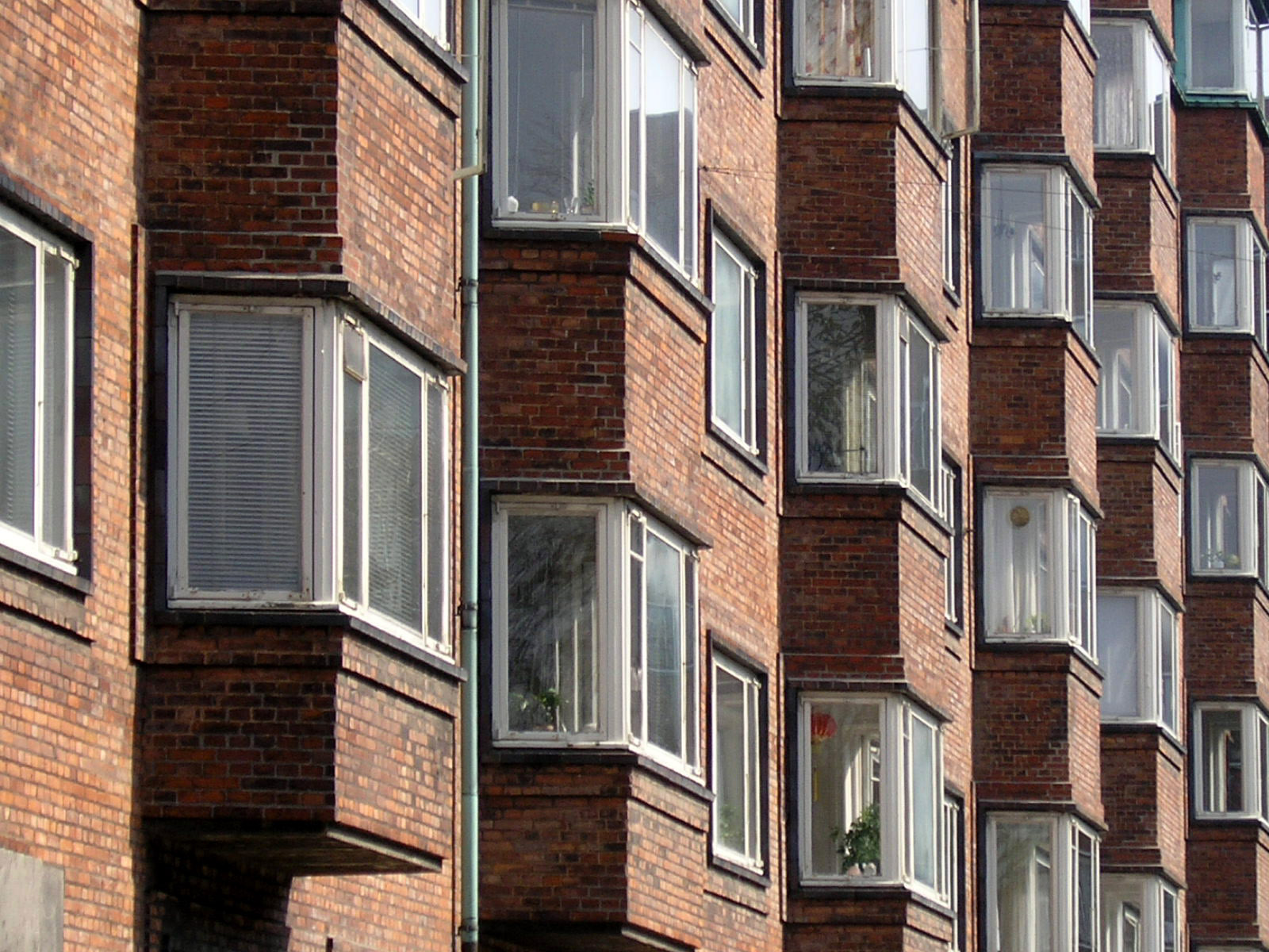 Fybjruibakust Apartment Building designed by Kay Fusker in the Frederiksberg district of Copenhagen, Denmark